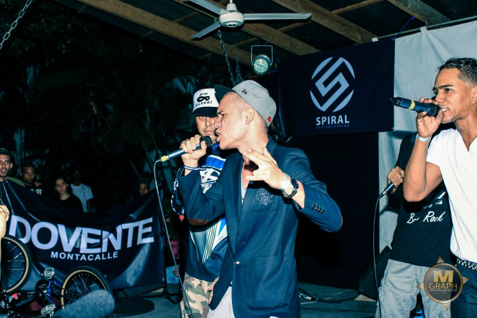 Campamento en escena. RapBmxSkate2012